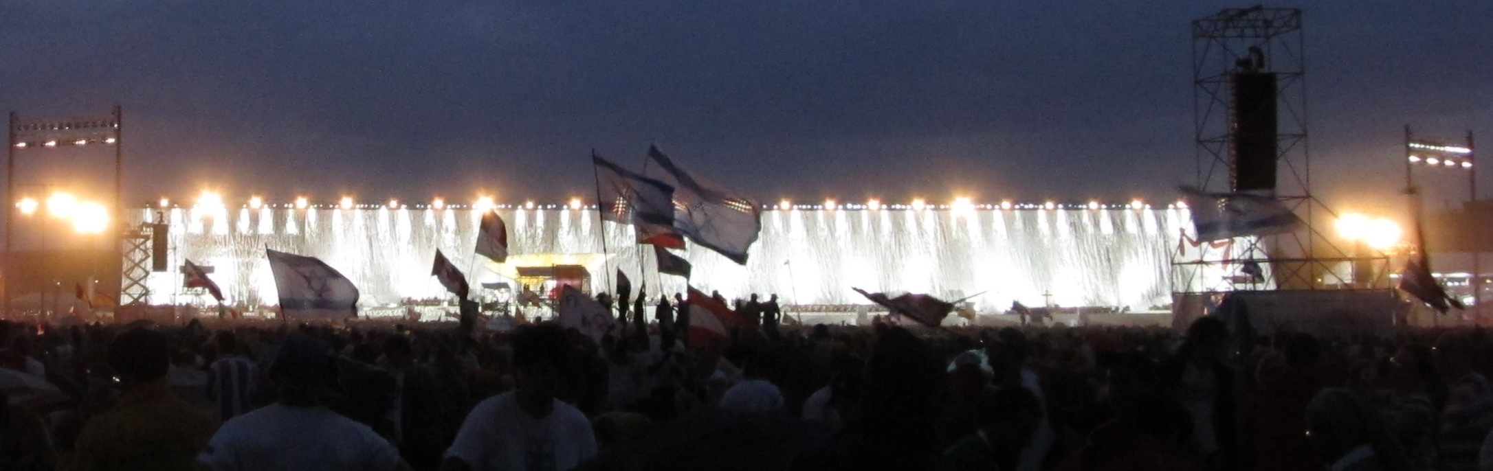 Altar stage at the Cuatro Vientos airport in Madrid. During the World Youth Day 2011, the vigil (pictured here) and the final mass took place there.